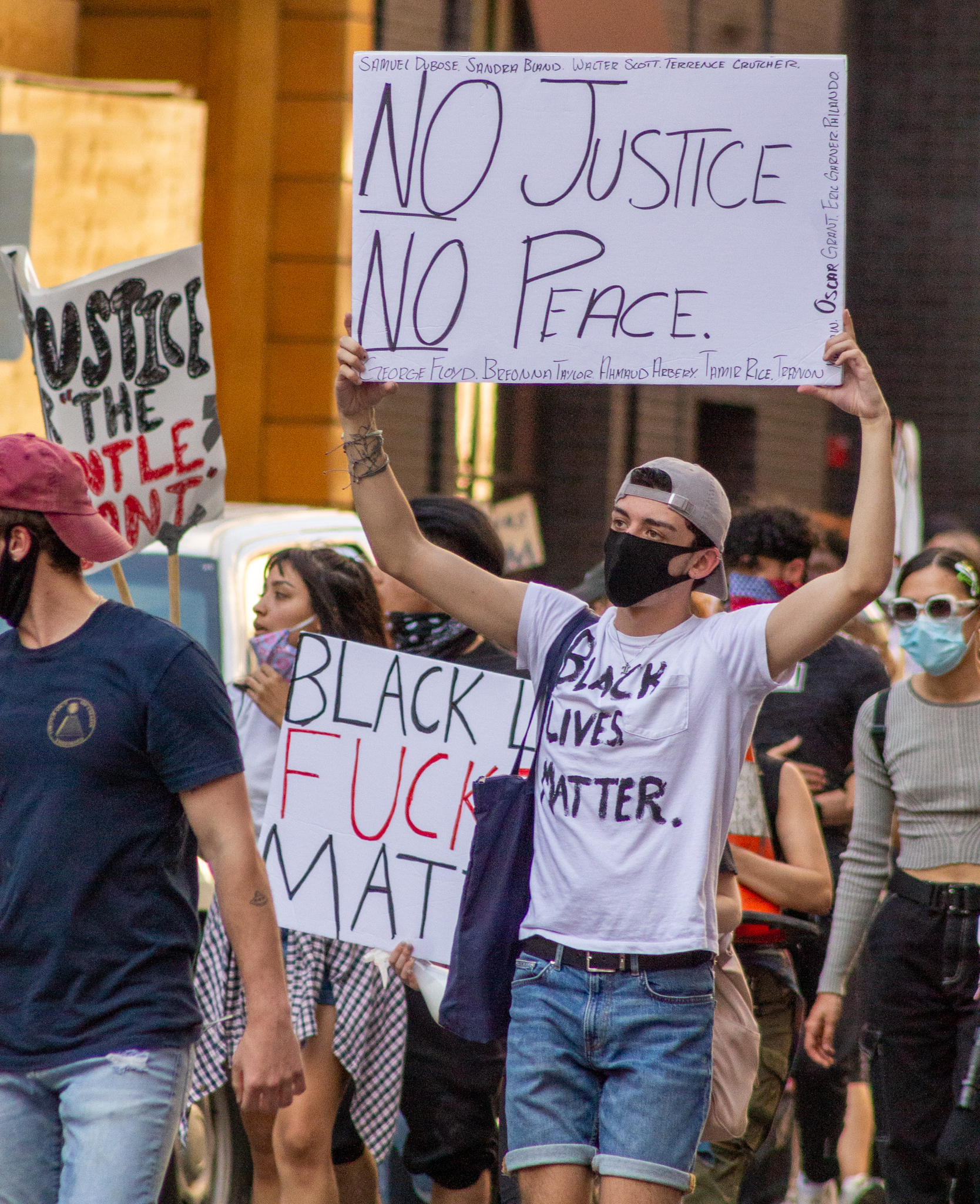 DallasProtest2020-125